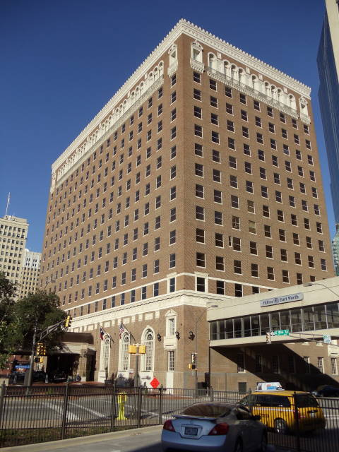 Hotel Texas